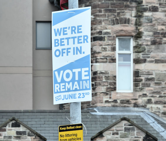 EU referendum "remain" poster, Belfast (June 2016)